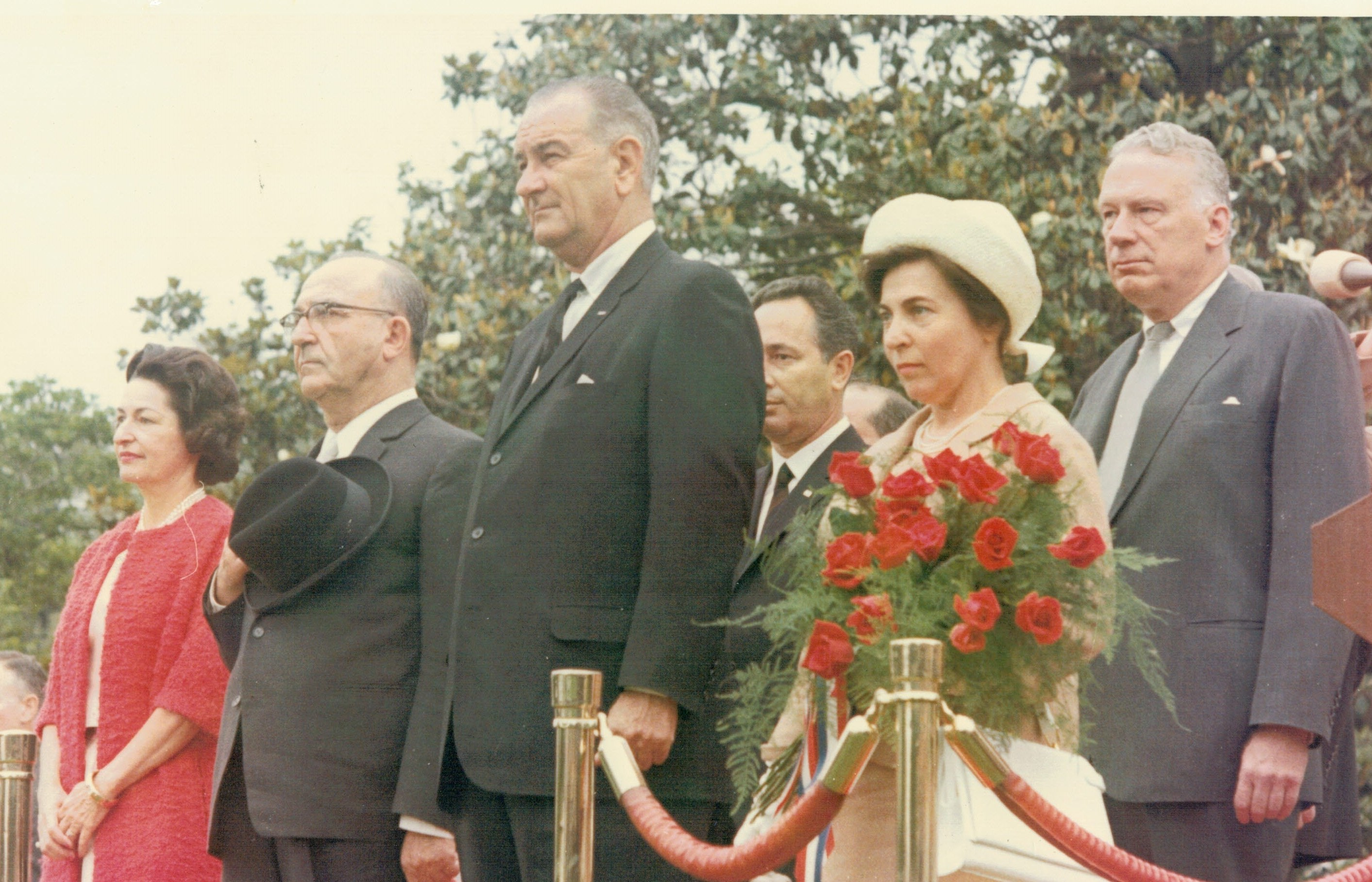 Levi Eshkol